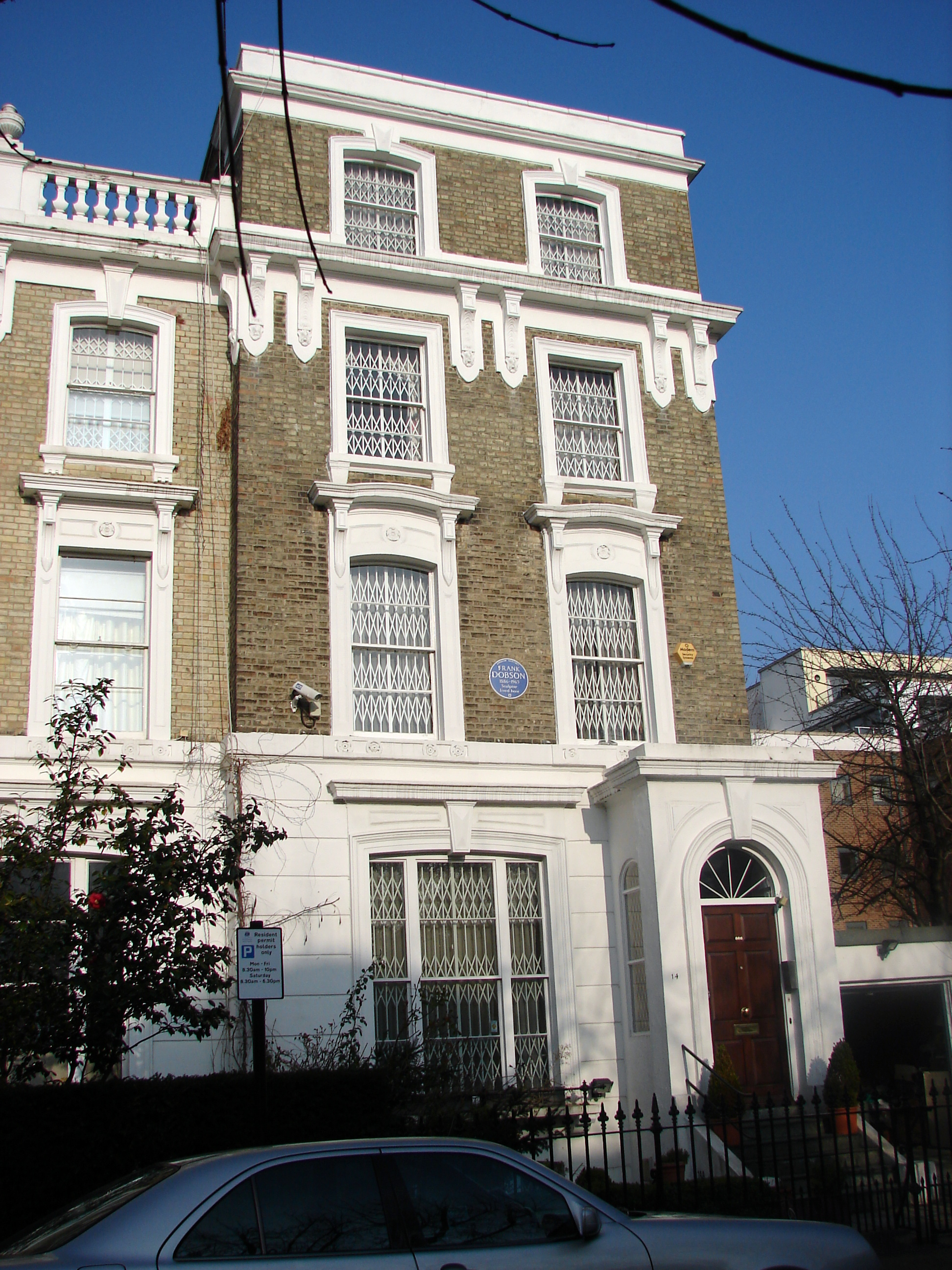 14 Harley Gardens, Kensington and Chelsea, London SW10 with plaque to Frank Dobson